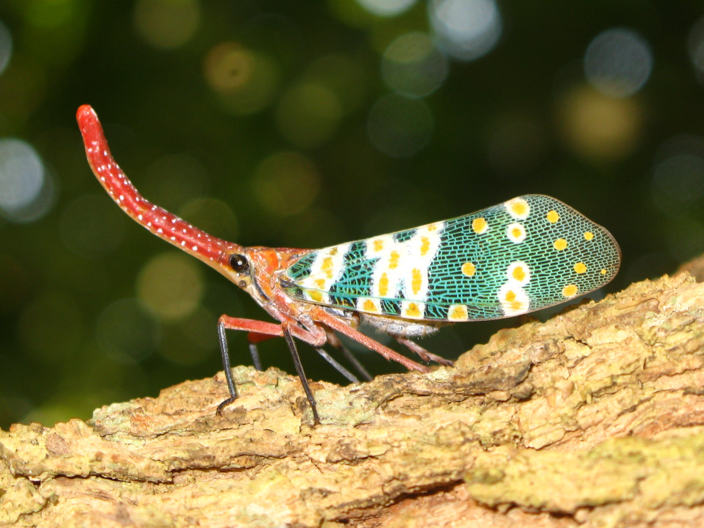 A lantern bug (Pyrops candelaria) on a tree branch. Huay Xai, Bokeo, Laos